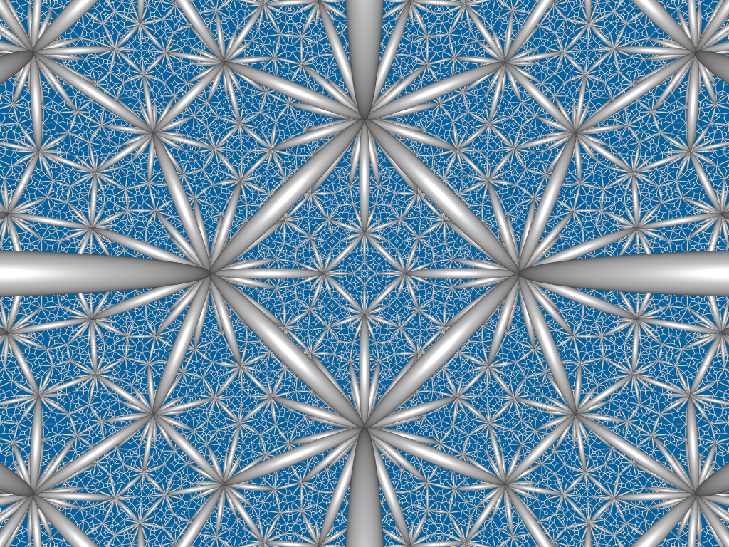 This is the regular {4,3,6} honeycomb in hyperbolic 3-space. The model is cell-centered in the Poincaré Ball model, with the viewpoint then placed at the ball origin.